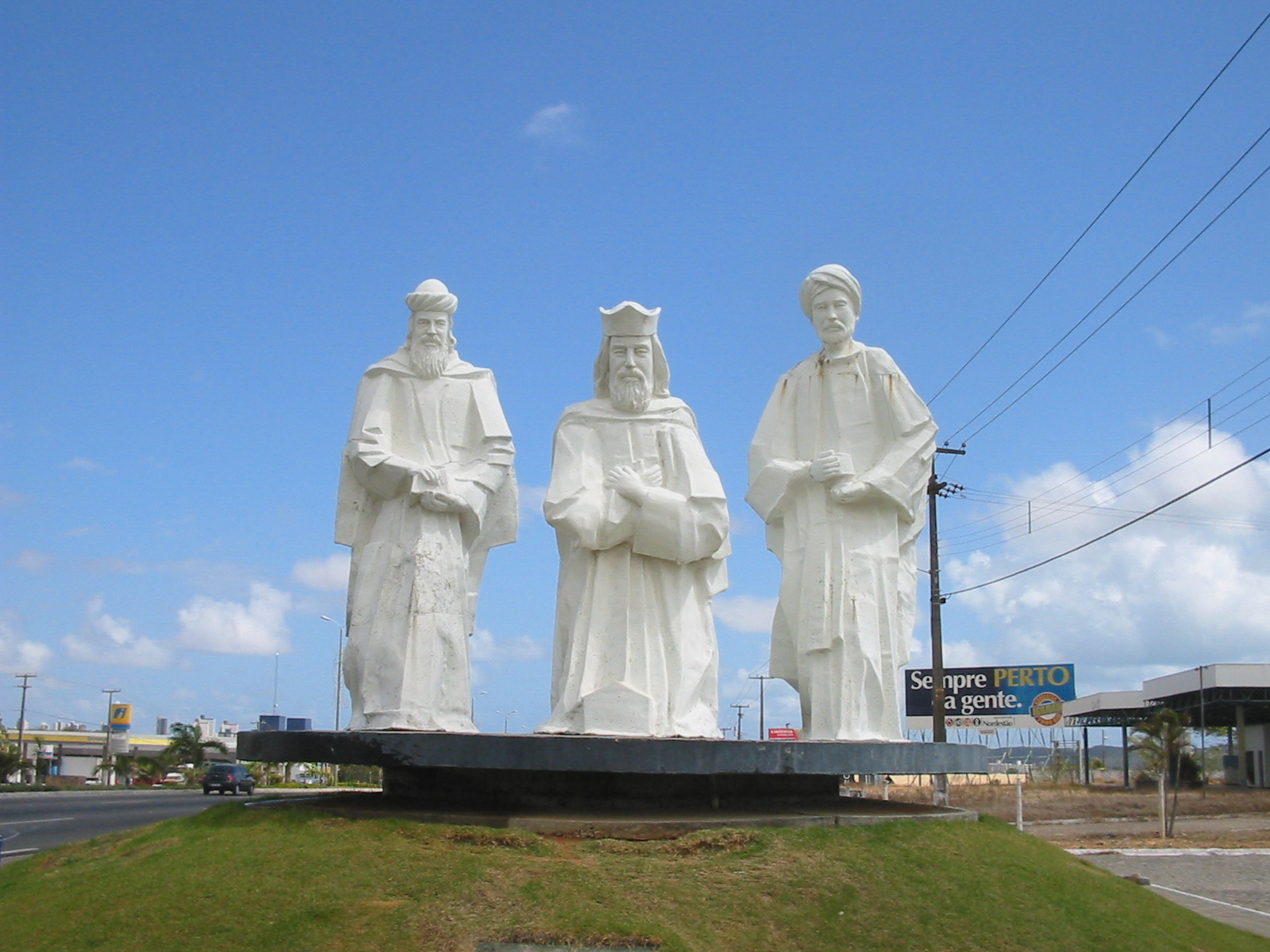 Natal, Brazil. Three Wise Men Monument.